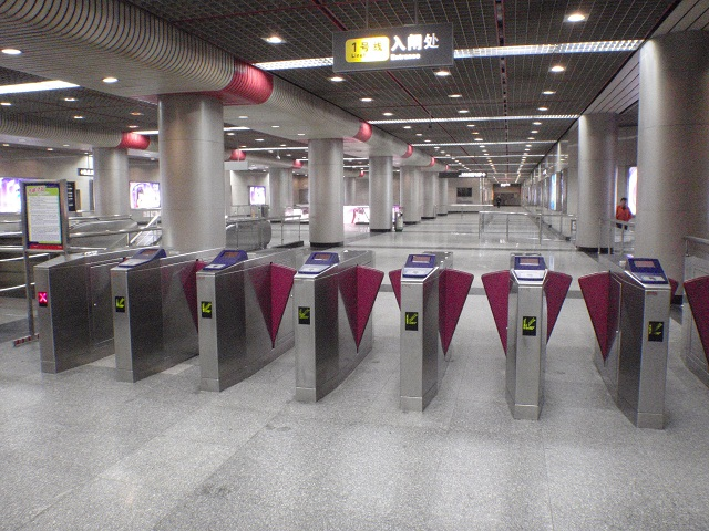 AFC gates at Guangzhou East station, Guangzhou Metro, China.